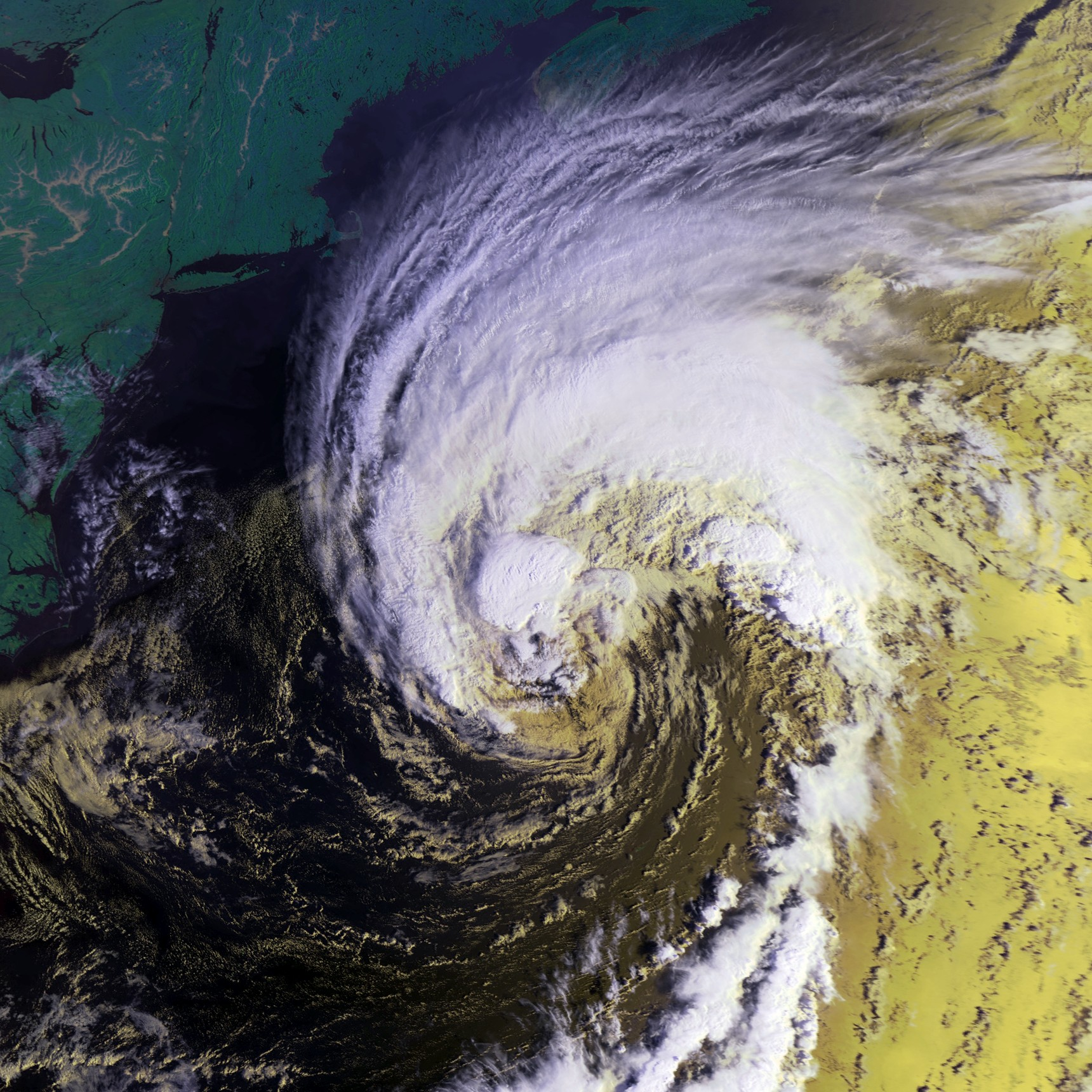 This image shows Hurricane Gabrielle at peak intensity on September 17 at 1213 UTC. This image was produced from data from NOAA-15, provided by NOAA.